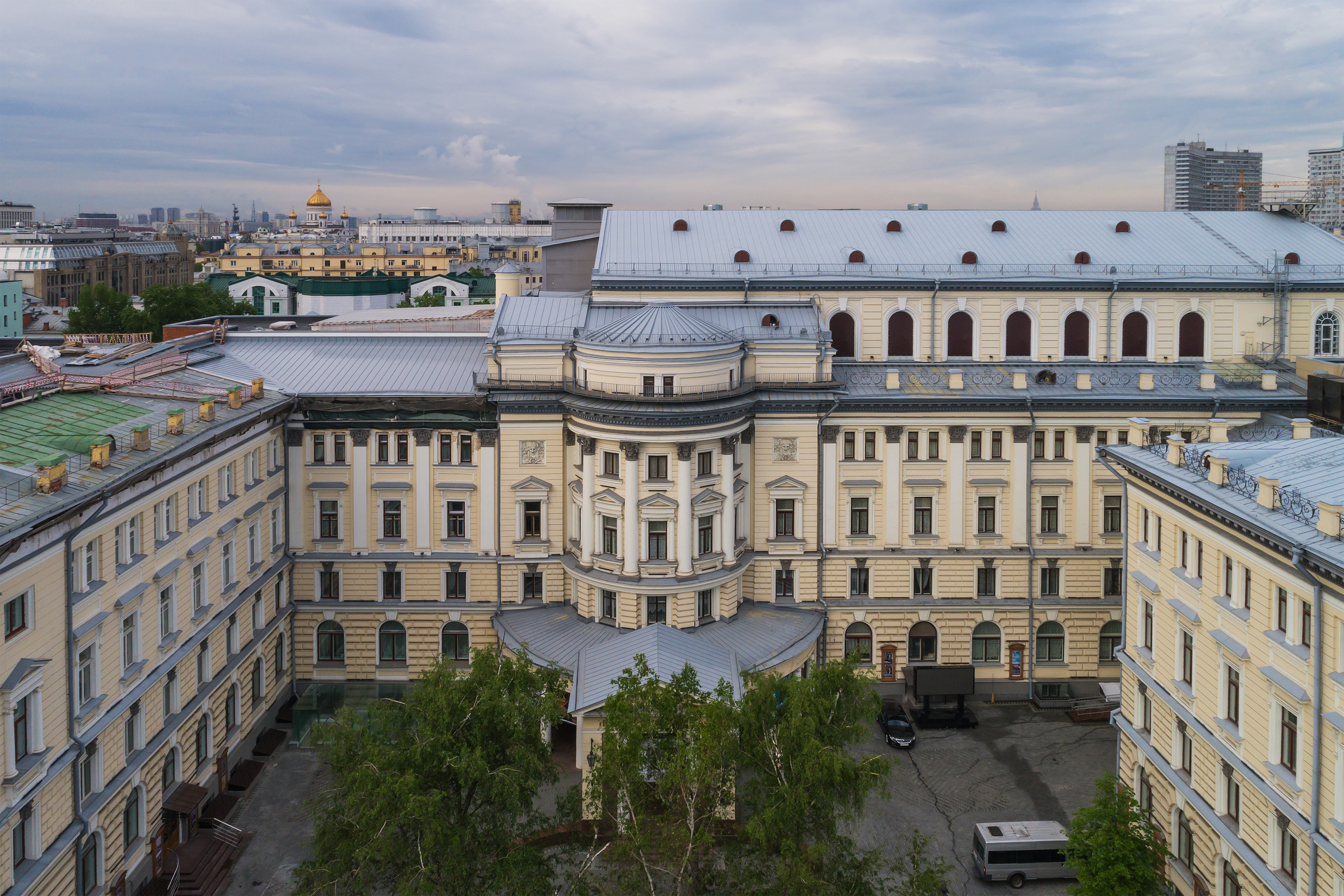 Aerial photo of Conservatory building in Moscow (Russia).